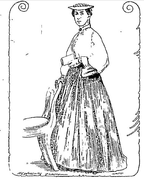 Image of a woodcut print of Lizzie Rutherford which was published in the Columbus Enquirer (Columbus, Georgia, United States) on May 1, 1898